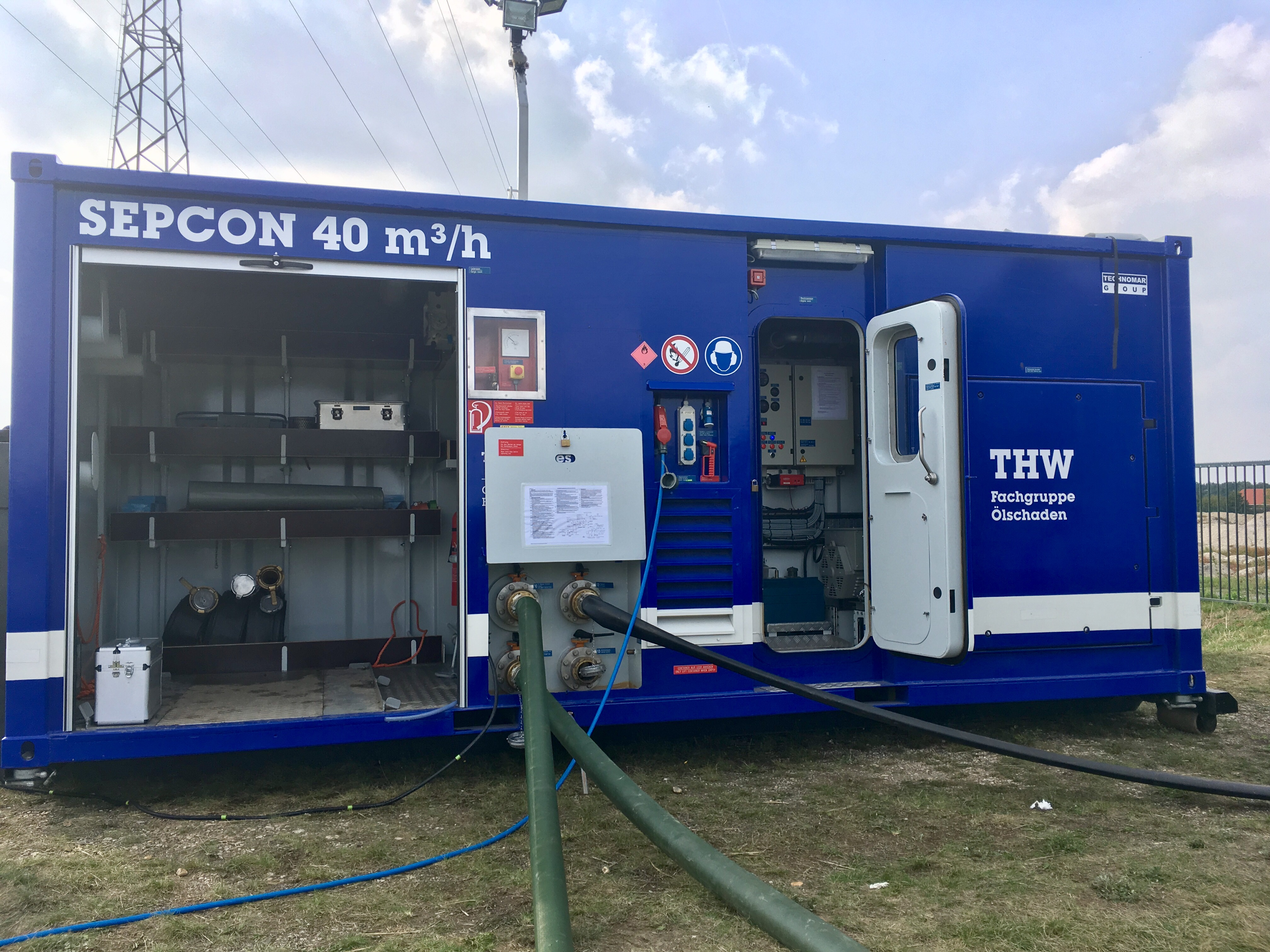 Bundesanstalt Technisches Hilfswerk (Federal Agency for Technical Relief, THW) SEPCON Container of THW Technical Unit Oil Pollution